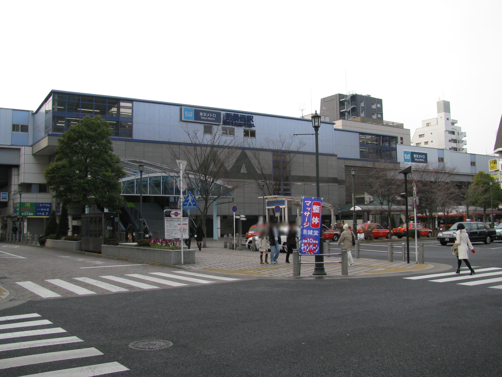 Station building of Nishi-Kasai Station on the Tokyo Metro Tozai line